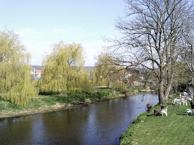 The River Stour at Wye in Kent. The platform lighting at Wye station can be seen through the trees together with the railway signal box. For more information see the Wikipedia articles River Stour, Kent and Wye, Kent.